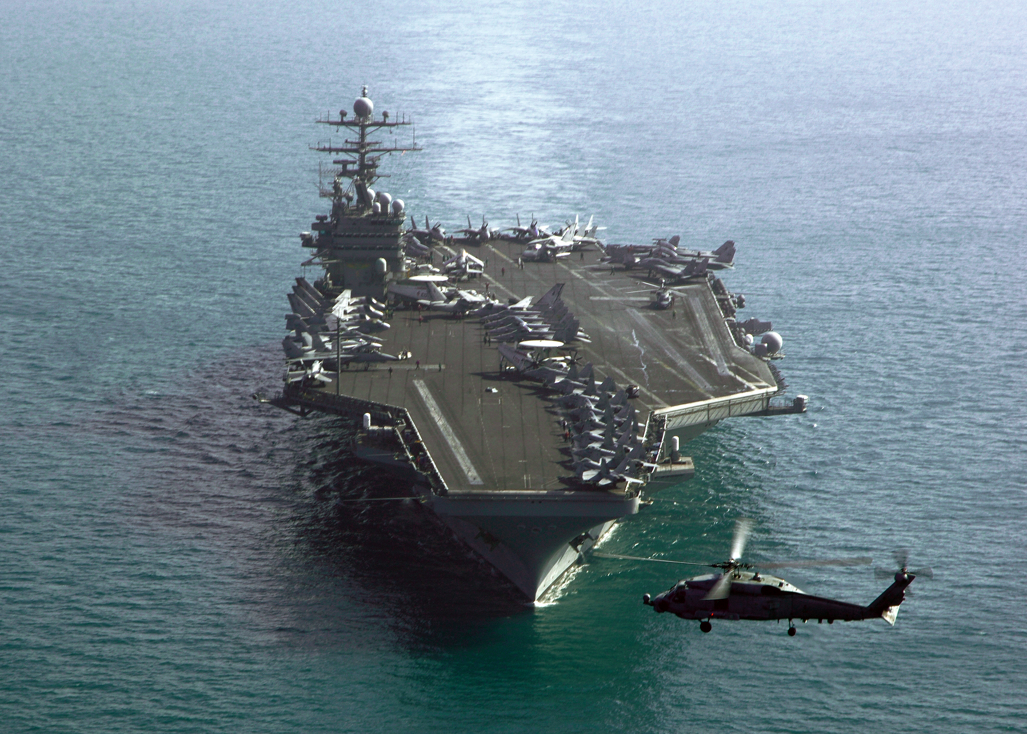 Persian Gulf (Dec. 3, 2005) – An HH-60H Seahawk helicopter hovers near the bow of the Nimitz-class aircraft carrier USS Theodore Roosevelt (CVN 71) while underway in the Persian Gulf. Roosevelt and embarked Carrier Air Wing Eight (CVW-8) are currently underway on a regularly scheduled deployment conducting maritime security operations. U.S. Navy photo by Photographer’s Mate 2nd Class Matthew Bash (RELEASED)